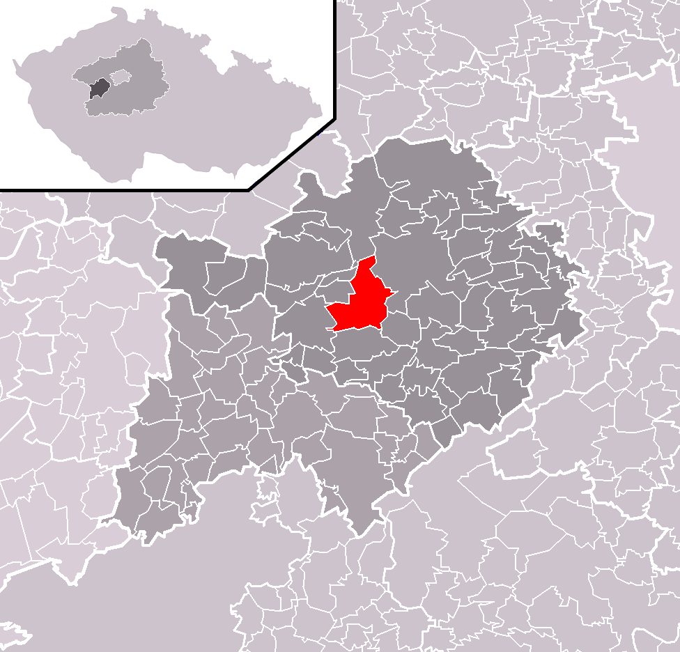 Location of Králův Dvůr town within Beroun District and administrative area of Beroun as a Municipality with Extended Competence.